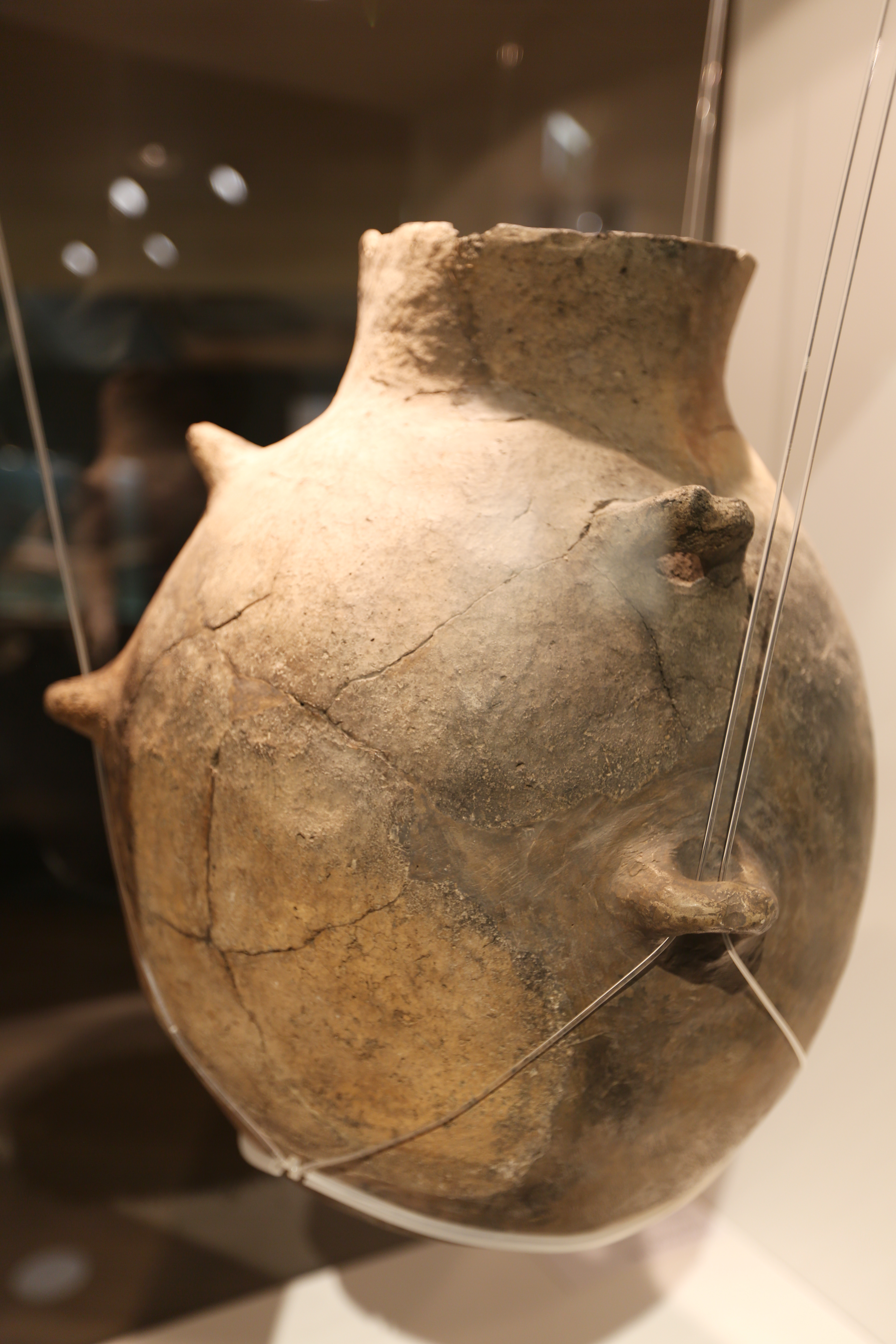 Stock clay 5000 B.C. Müddersheim, Germany